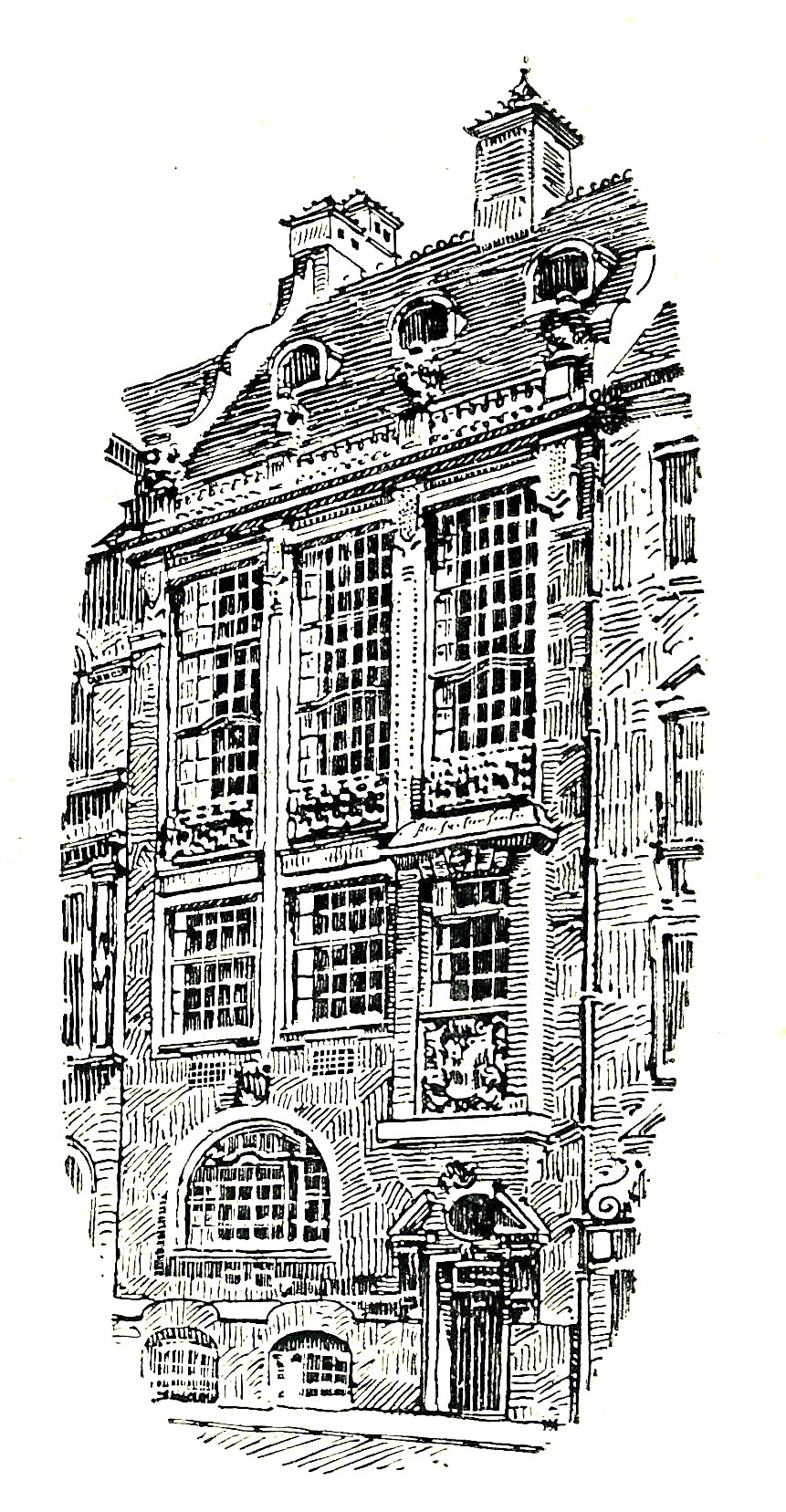 Former house of student fraternity Corps Franconia München, Platzl 7, Munich / Germany